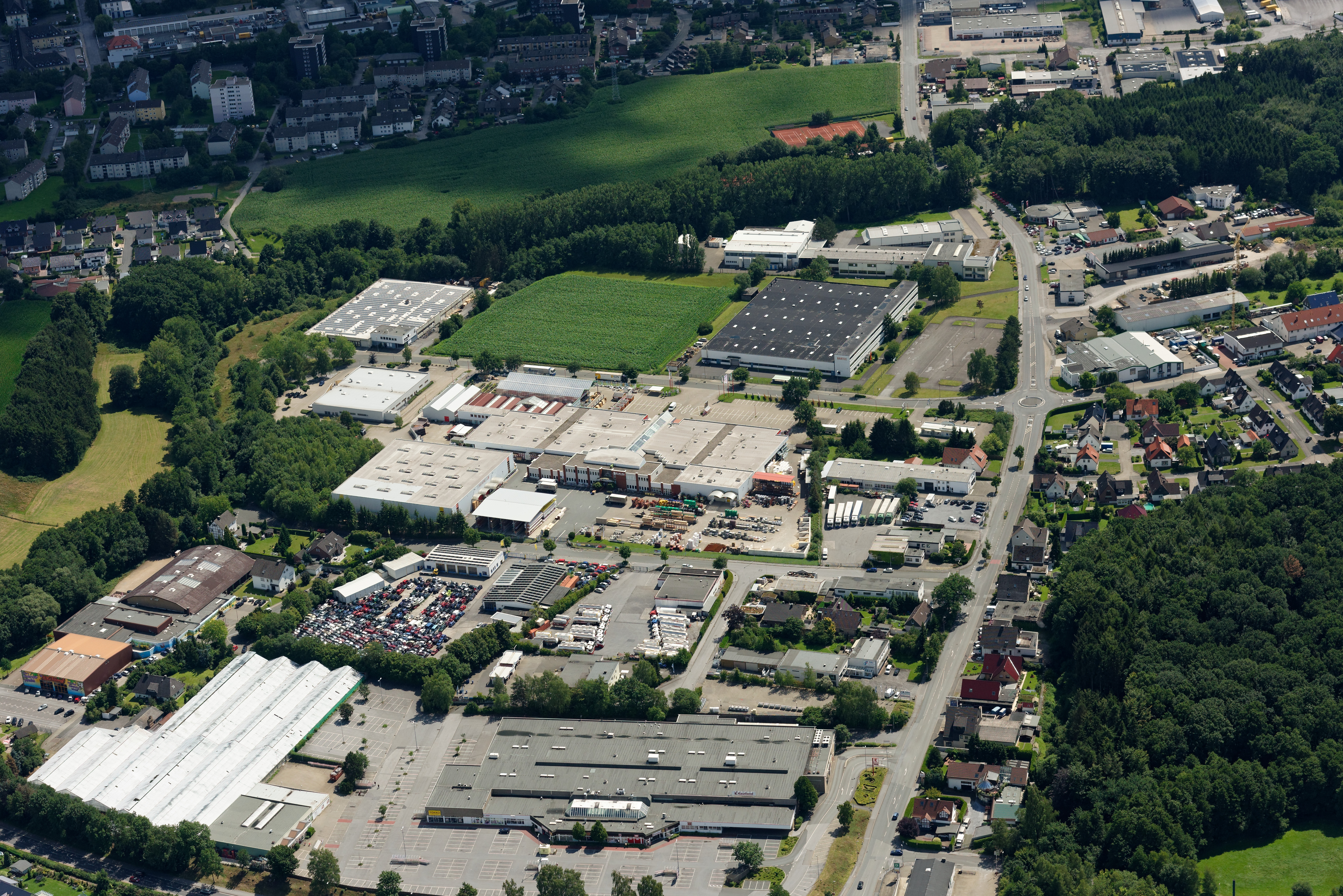 Gewerbegebiet Holzener Straße/Stuckenacker, Menden (Sauerland), Blick Richtung Süden. The making of this document was supported by the Community-Budget of Wikimedia Germany.